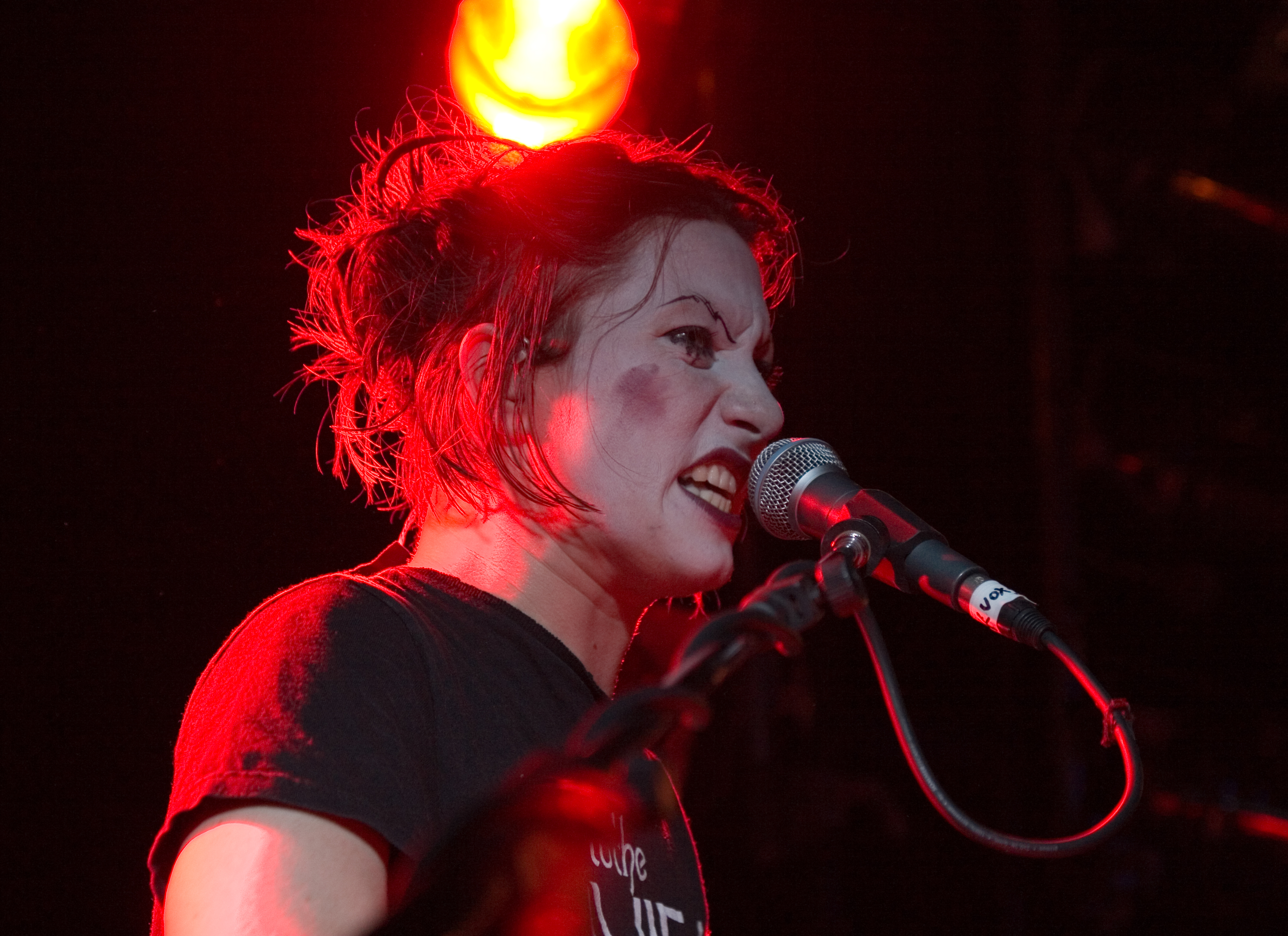 Amanda Palmer performing with The Dresden Dolls at Kings Arms Tavern in Auckland, New Zealand